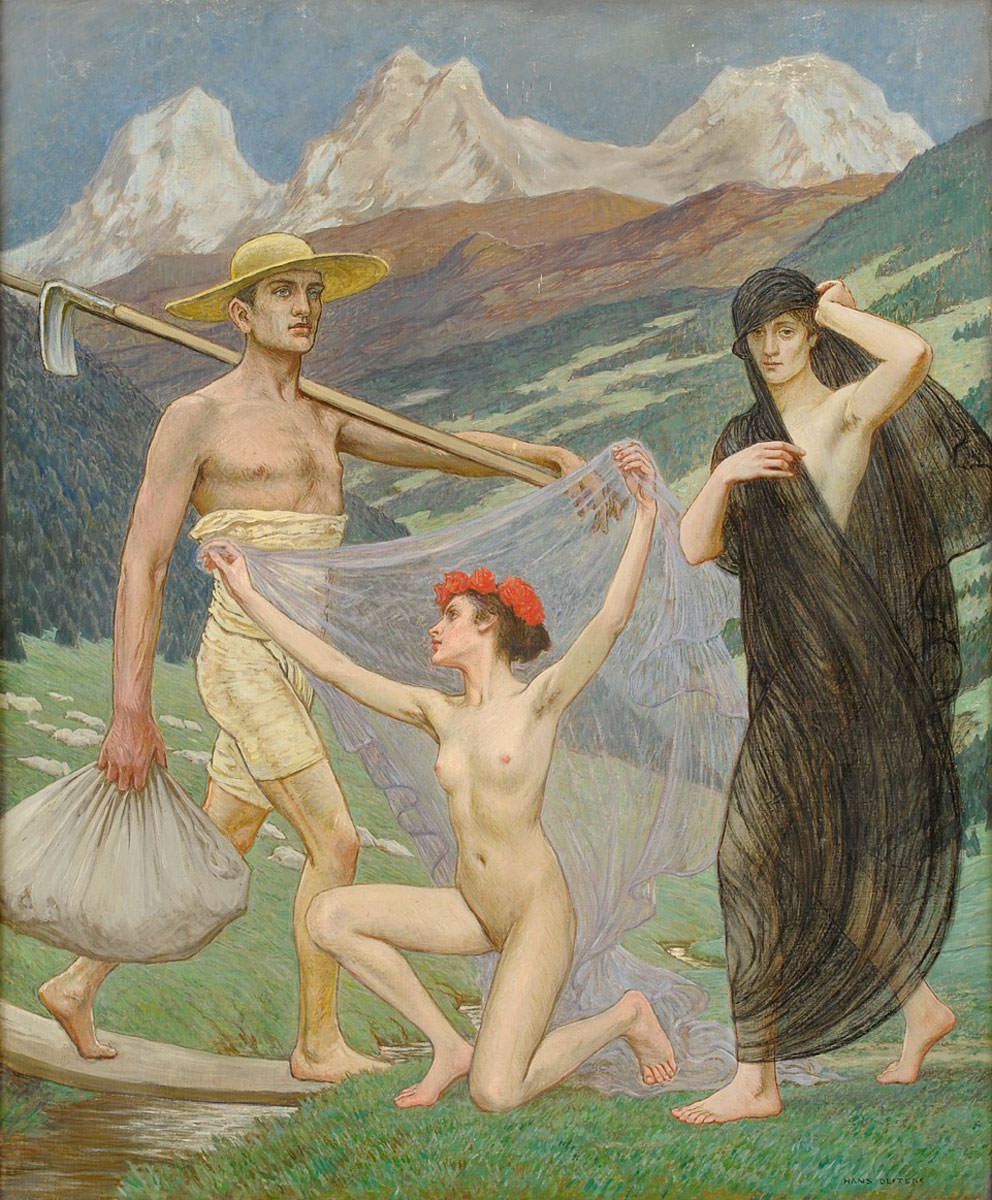 Spring by Hans Deiters, oil on canvas, 75 x 62 cm